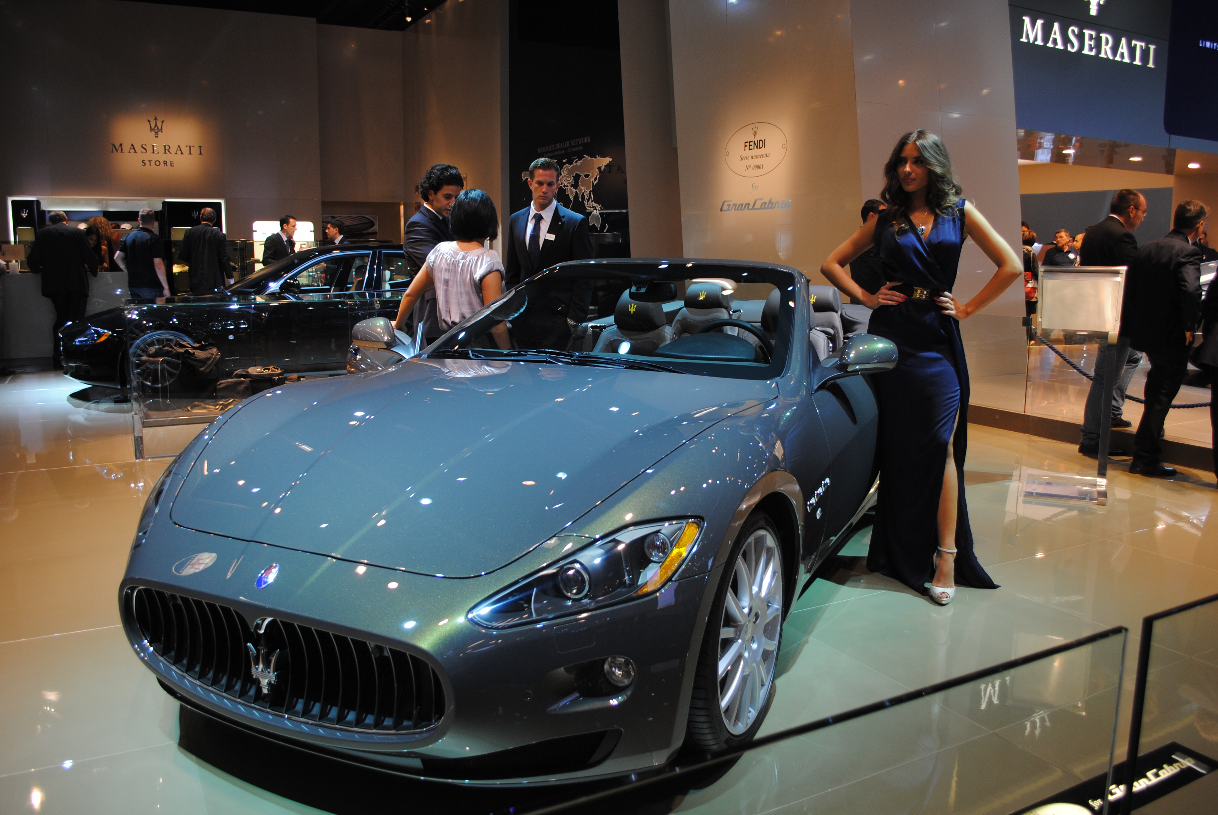 For more images and info, please check